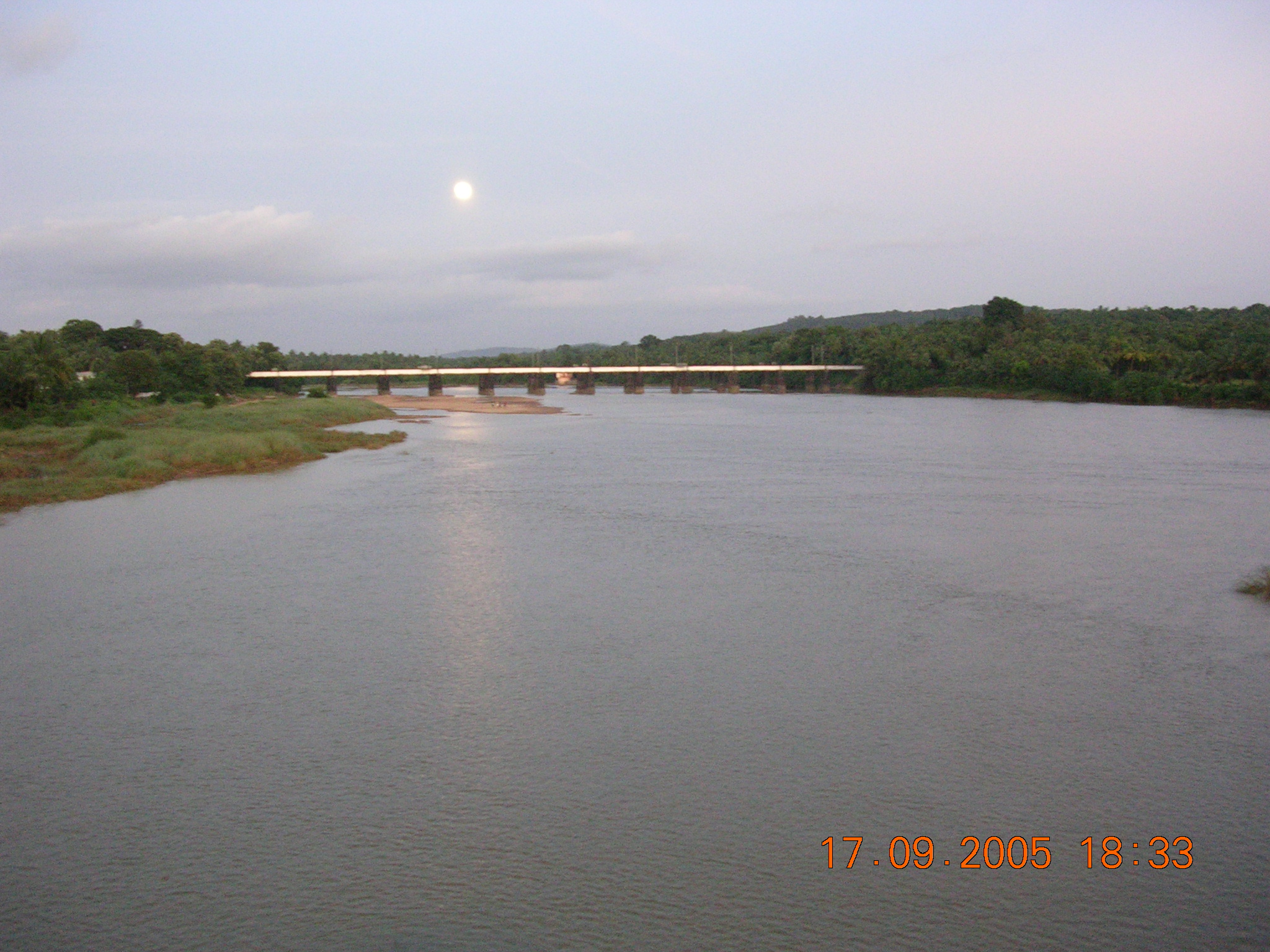 Road Bridge over Bharathapuzha River near Shoranur, south India